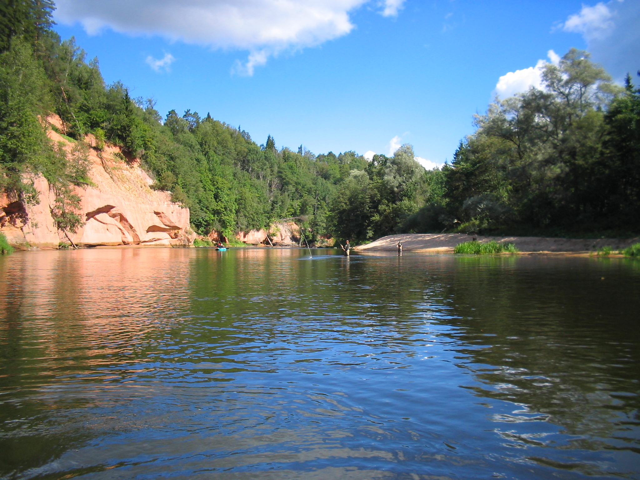 Ķūķu rock next to the Gauja river near Cesis. This originally under the GNU Free Documentation License (GFDL, version 1.3) licensed file is available as a result of the license conversion of Wikipedia under the terms of the Creative Commons Attribution-Share Alike 3.0. This fact must be documented in transferring this file to Wikimedia Commons. From German Wikipedia